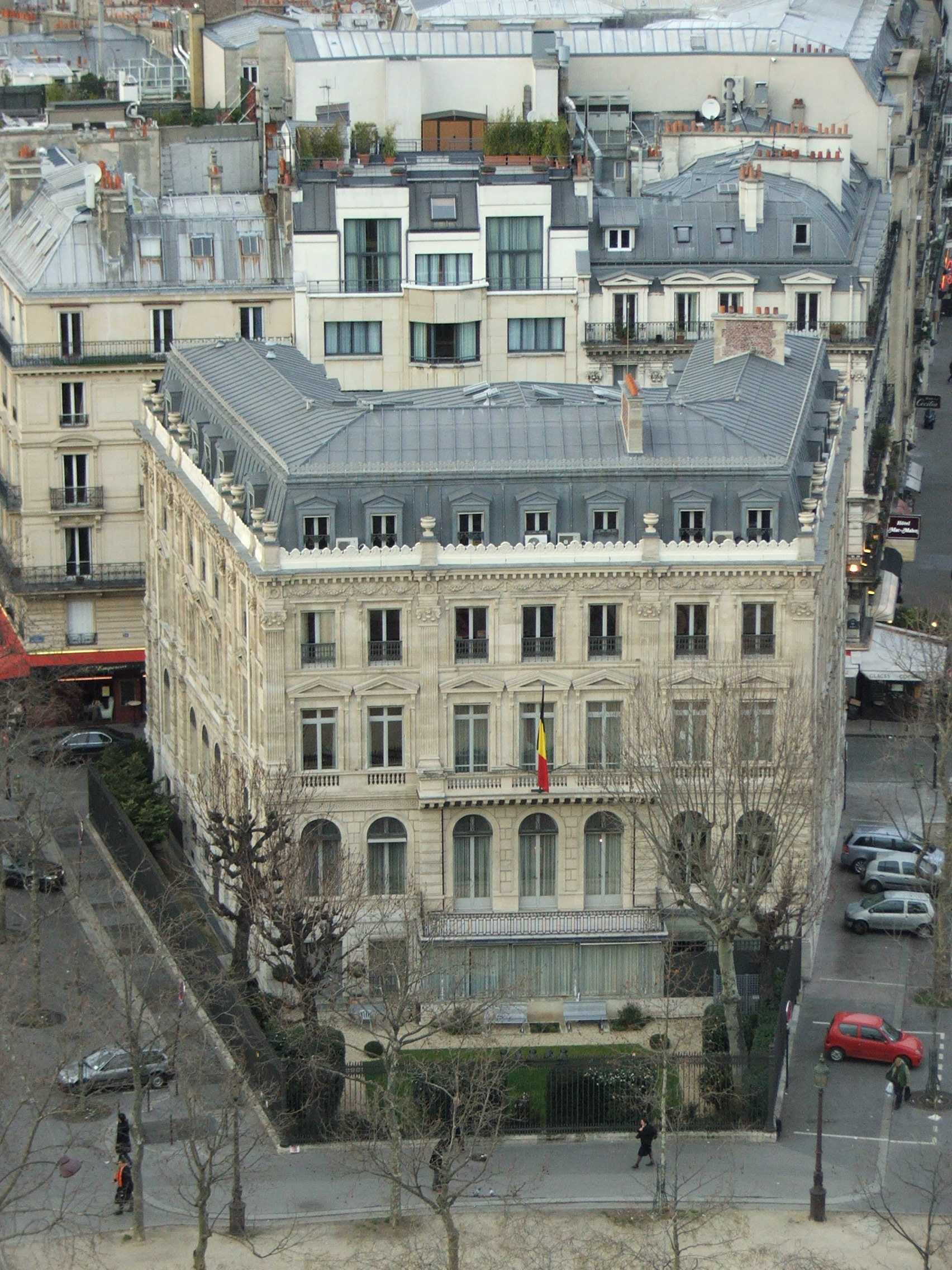 Embassy of Belgium - chancery in Paris - France located at Place de l'Etoile - Charles de Gaulle.